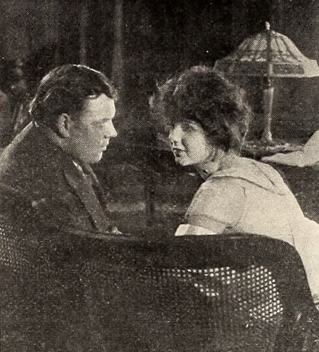 Still from the American drama film The Traffic Cop (1916) with Howard M. Mitchell and Gladys Hulette, on page 198 of the May 1916 Cine-Mundial (American Spanish language magazine).